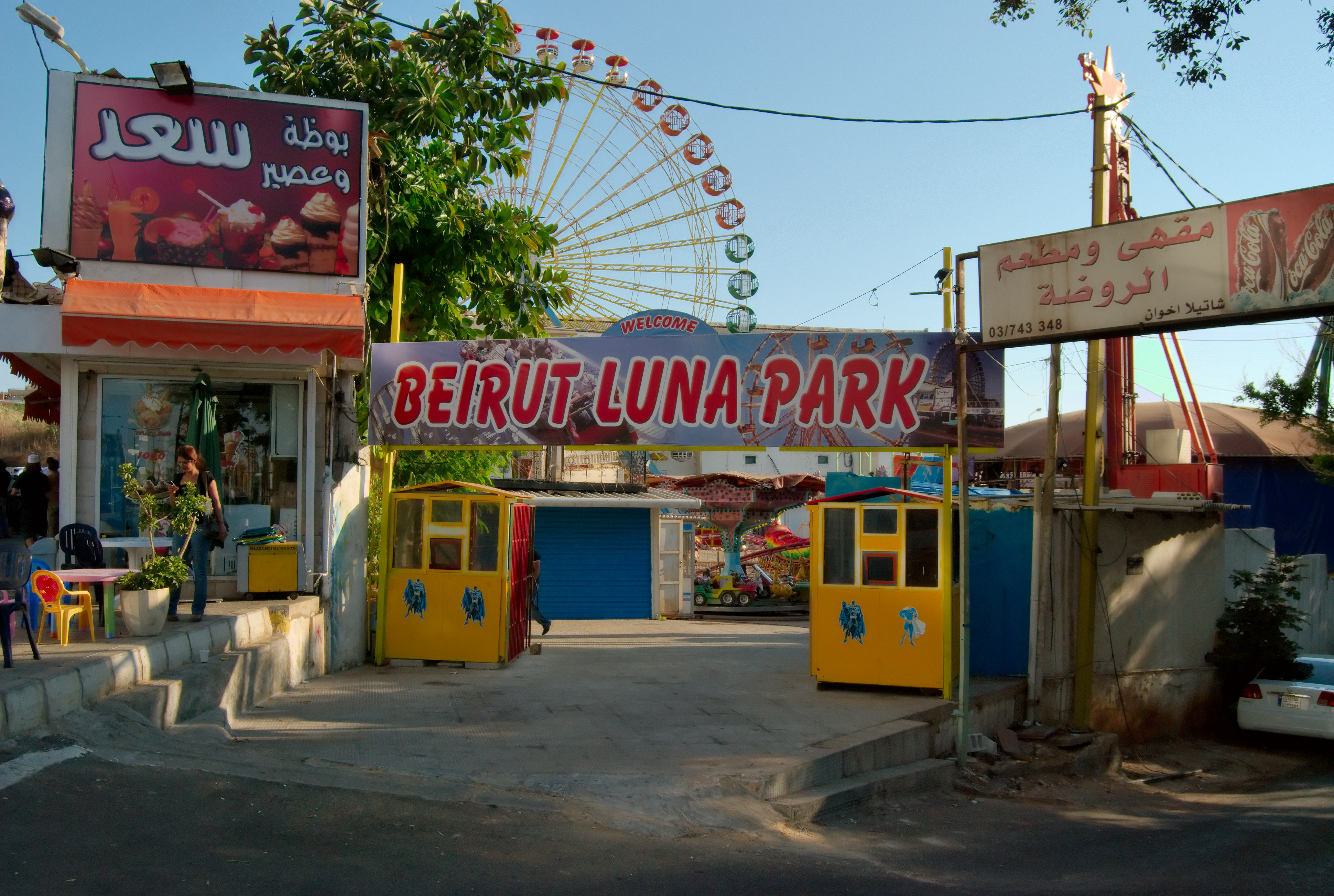 Entrance to the Luna Park amusement park in Beirut, Lebanon